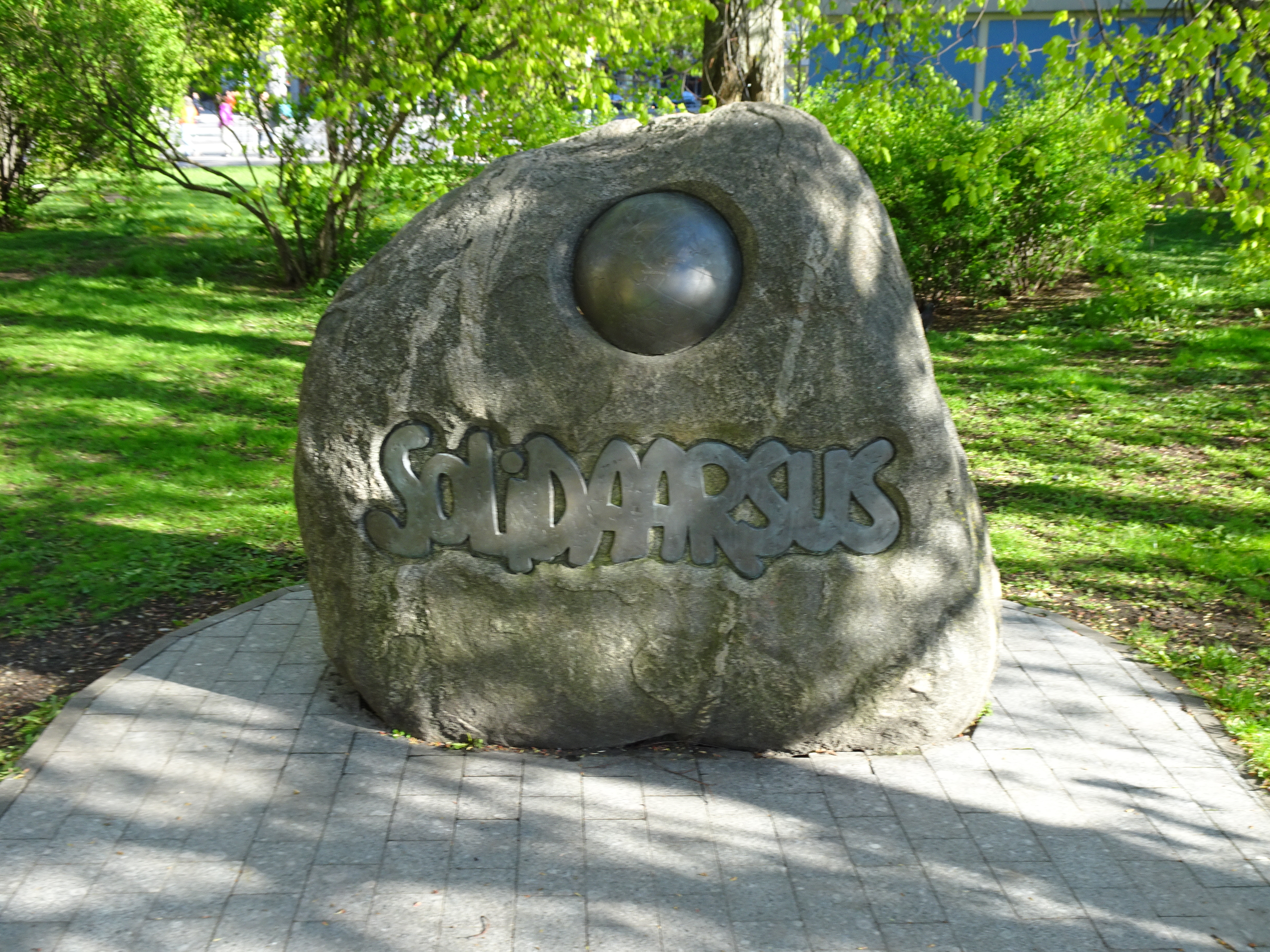 Solidarity Stone in Tallinn, Estonia